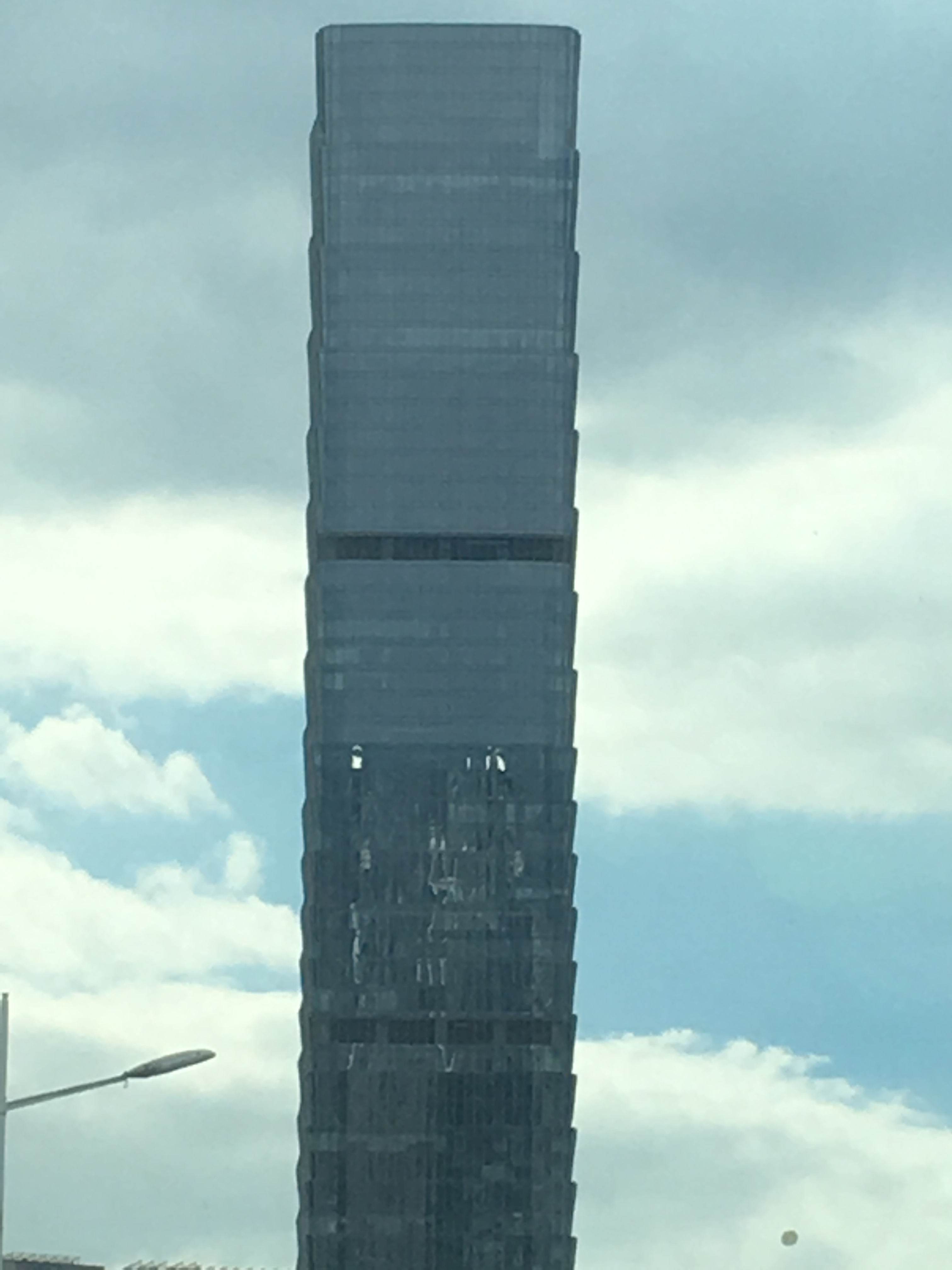 Binhe Shidai Tower, Shenzhen